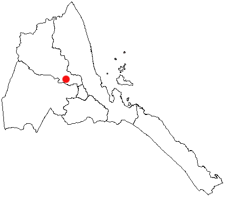 Keren, Eritrea Location Map; created with the GIMP. Made by Acntx.